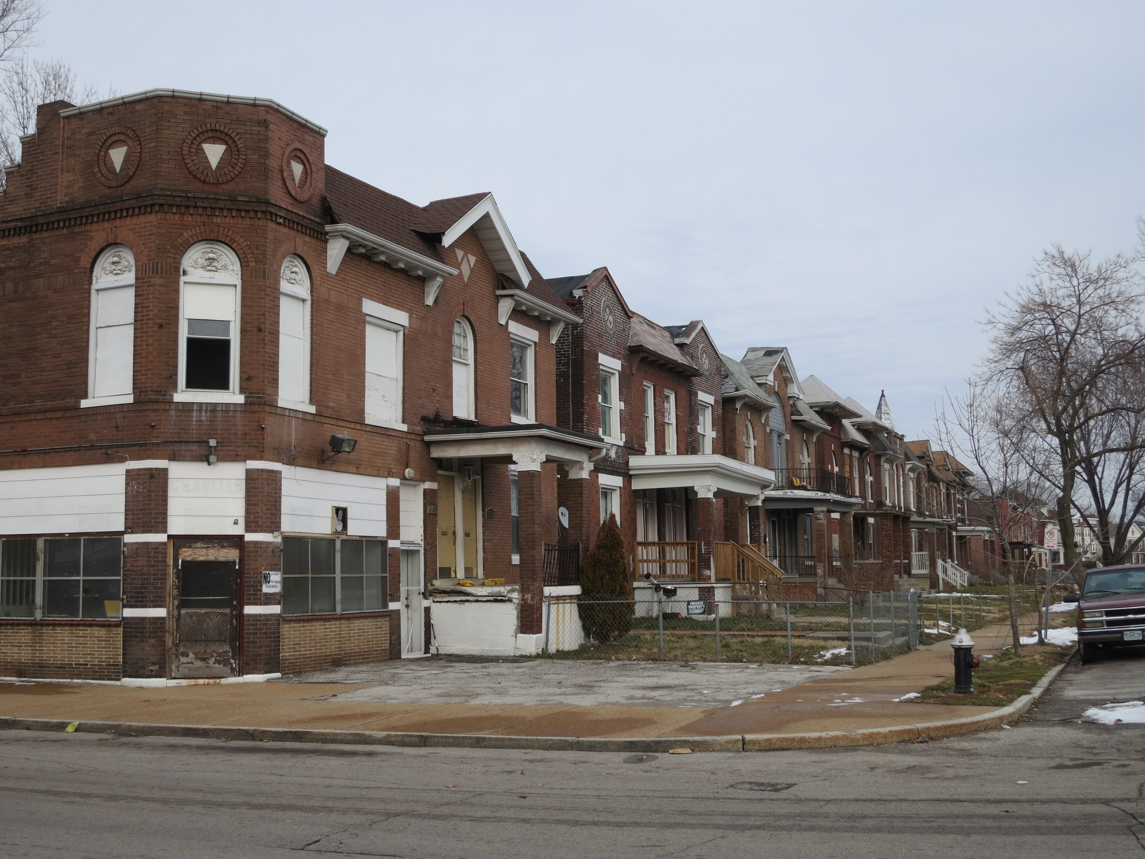 Off Walton